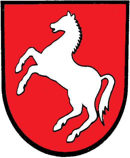 coat of arms of the municipality of Slovenske Konjice Ort: Gonobitz, Slowenien